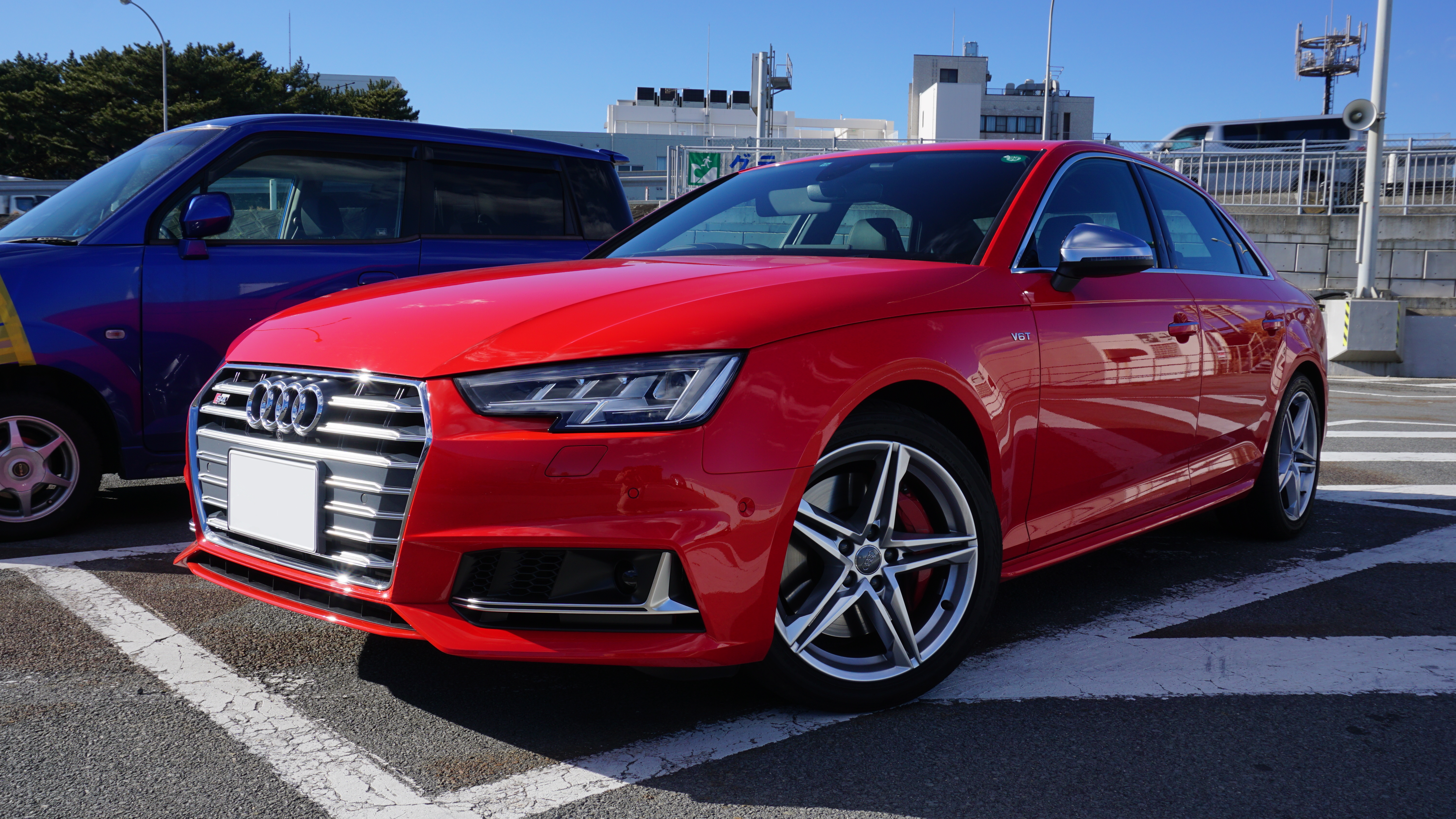 Front view of the Audi S4 3.0 TFSI.